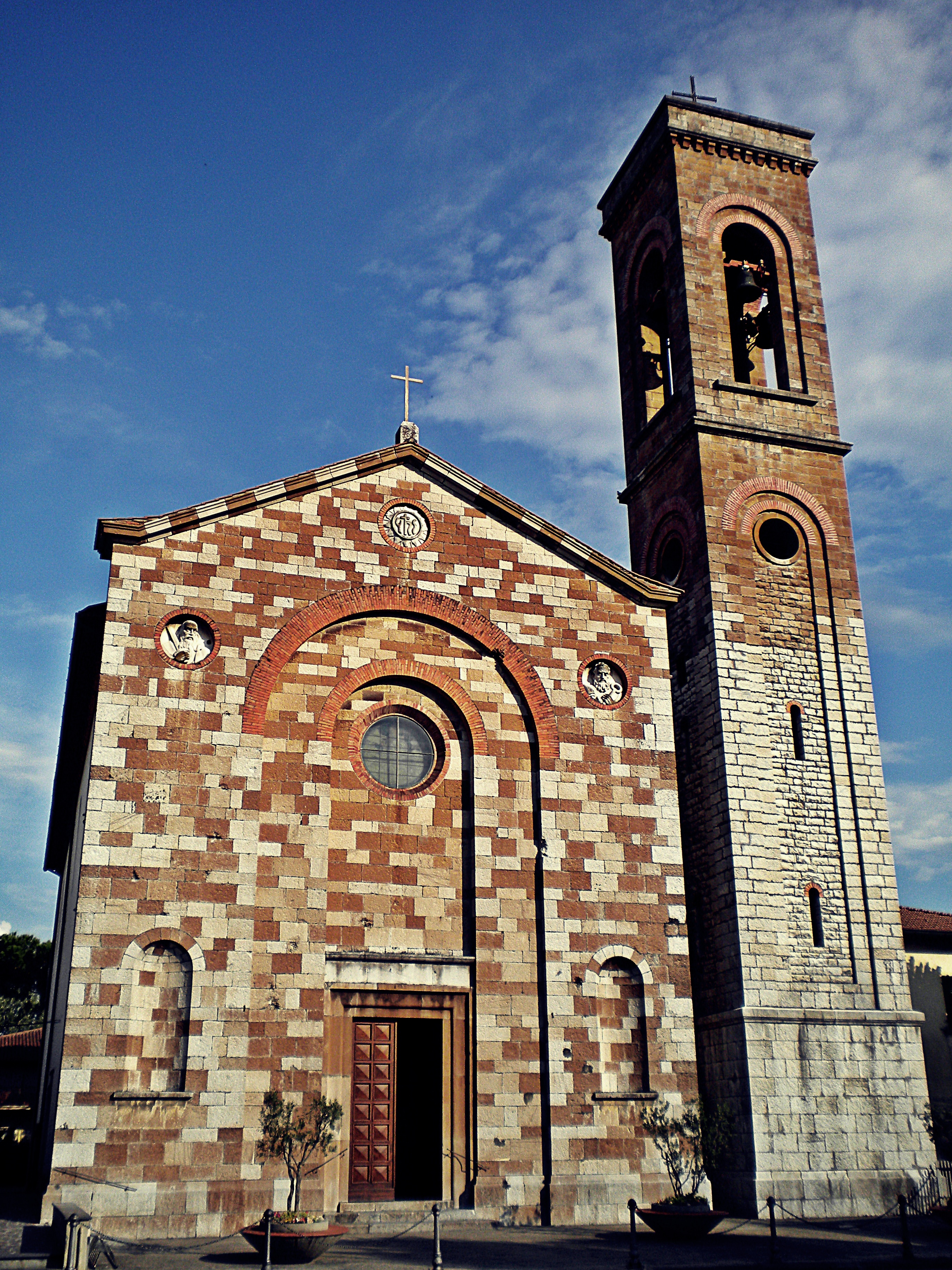 facade